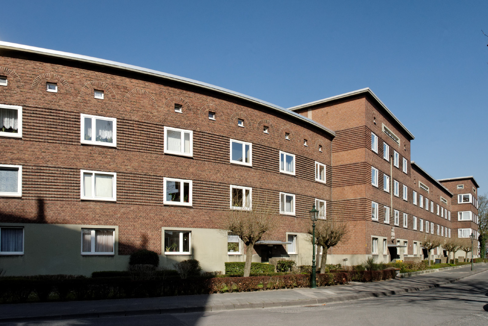 Houses Heerdter Sandberg 29 to 35 in Düsseldorf-Oberkassel, Germany This is a photograph of an architectural monument.